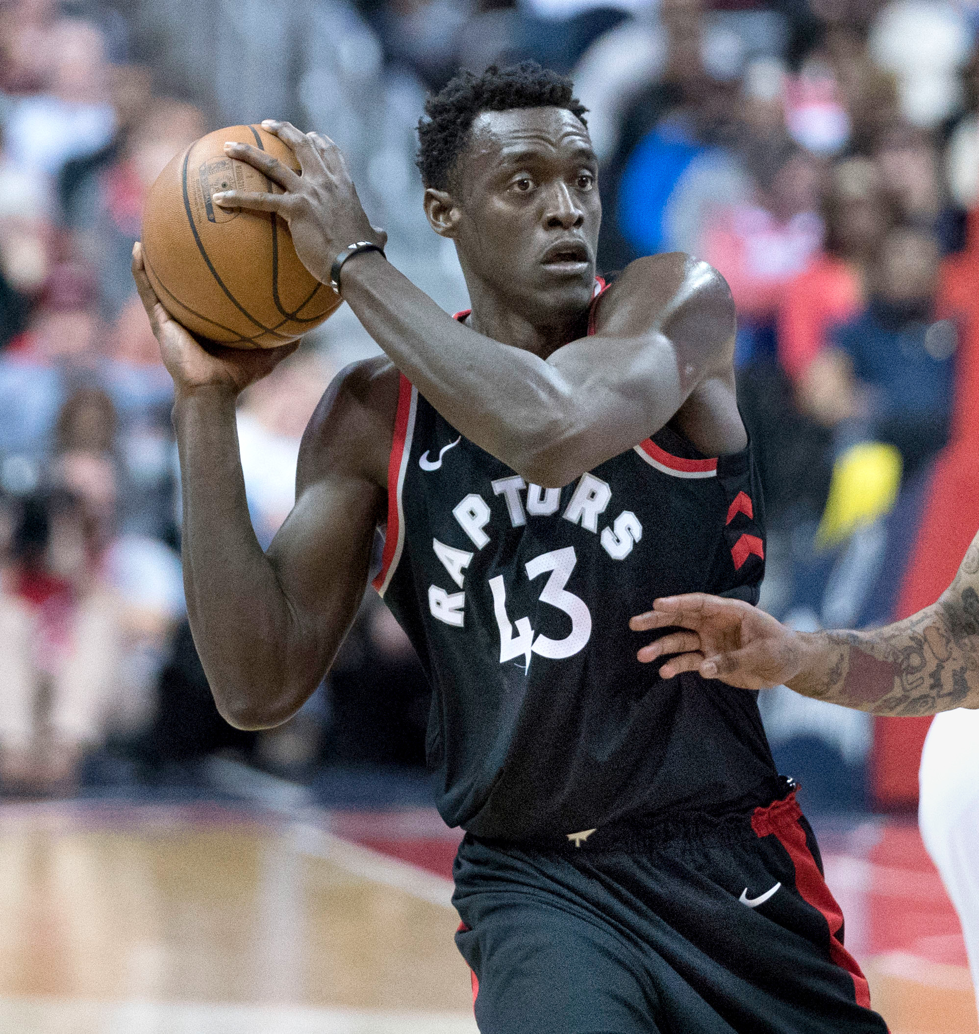 Raptors at Wizards 3/2/18